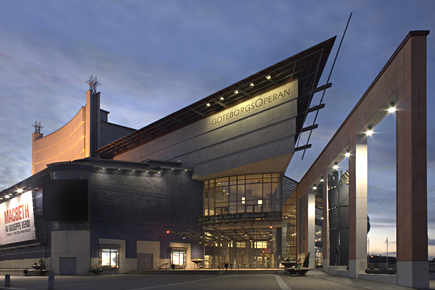 the Gothenburg Opera) is an opera house in Gothenburg, Sweden. The construction of the opera started in 1989 and it was opened in 1994. The building located on the southern riverbank is one of the most notable landmarks in Gothenburg. Edit to correct perspective and pincushion distortion and some LCE by Matthew Field